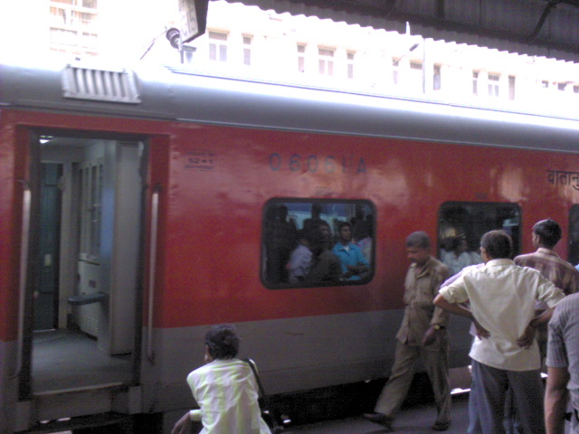 A rajdhani express train bound to depart